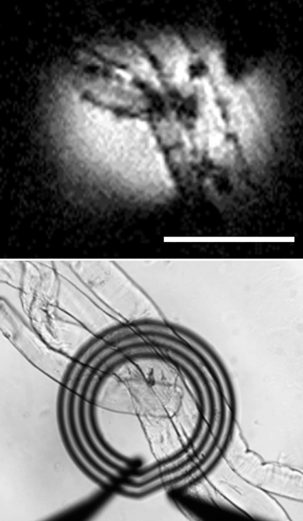 Top: magnetic resonance microscopy image of mouse muscle fibers stained with S-Gal/FAC (S-Gal = 3,4-Cyclohexenoesculetin β-D-galactopyranoside, FAC = ferric ammonium citrate; scale bar = 200 μm). Bottom: conventional micrograph showing the MRM coil.